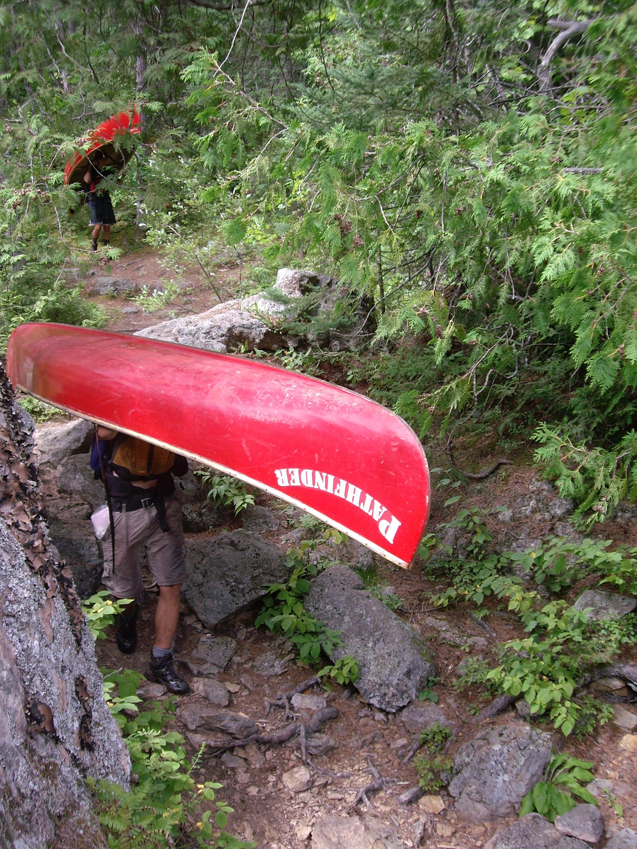 Camp Pathfinder Canoe Petawawa River Portage